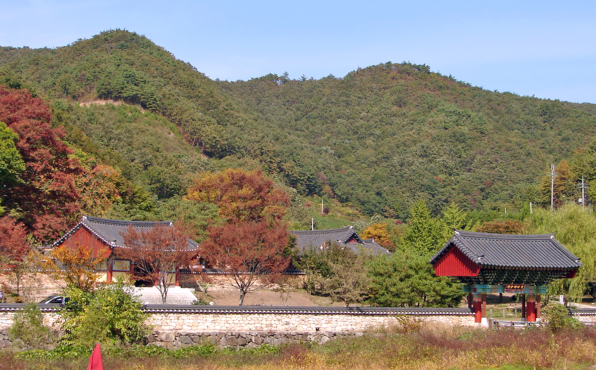 Ssangbongsa, or Ssangbong Temple (Ssang means 'twin' and Bong means 'peak' ), derives its name from the pair of twin peaks on the mountain behind this Buddhist temple. Ssangbongsa in located in Hwasun County, South Jeolla Province, South Korea. Ssangbongsa was built by Zen Priest Cheolgam in 868 during the Unified Silla Period.